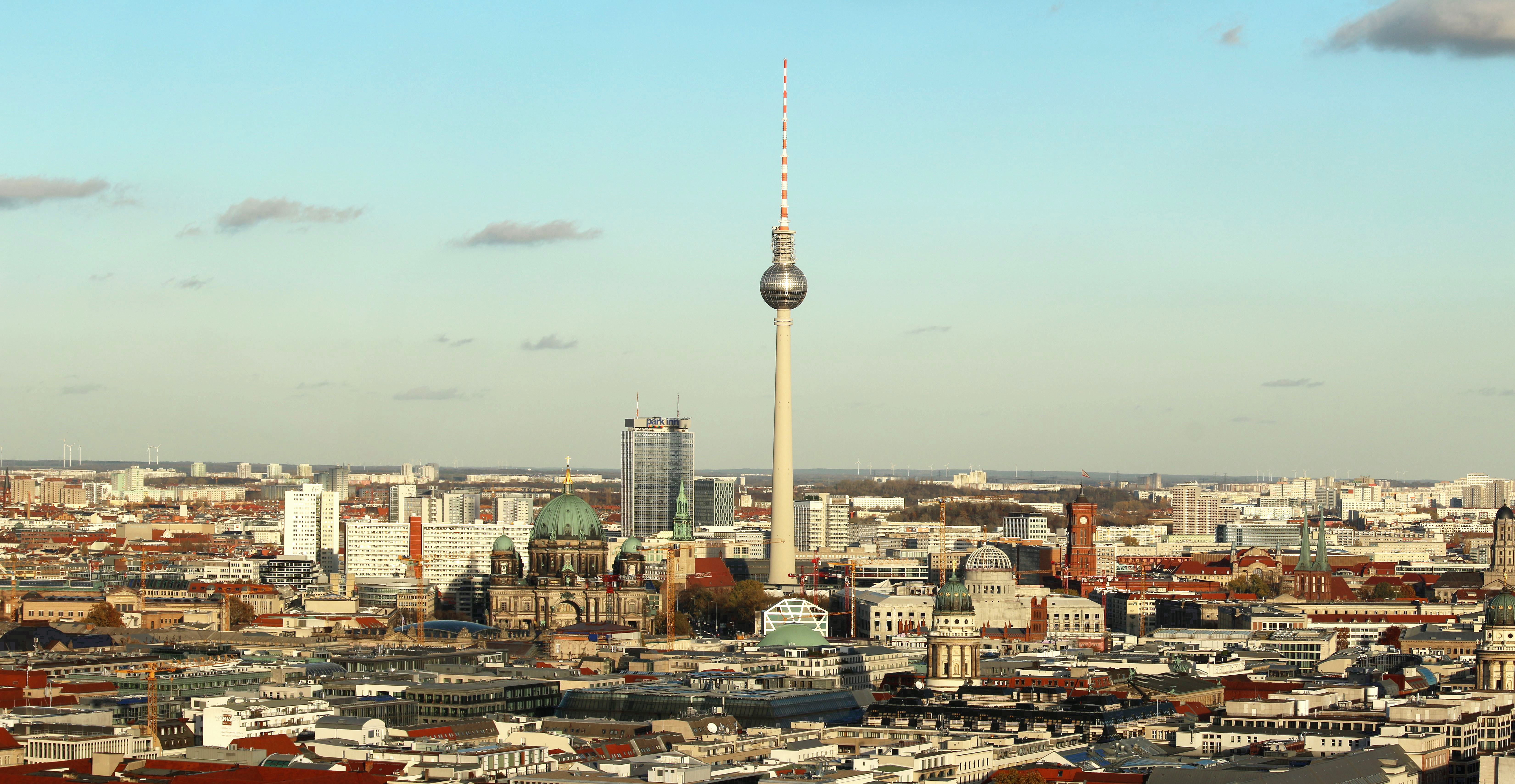 City of Berlin with TV tower, palace and cathedral - Berlin, Germany